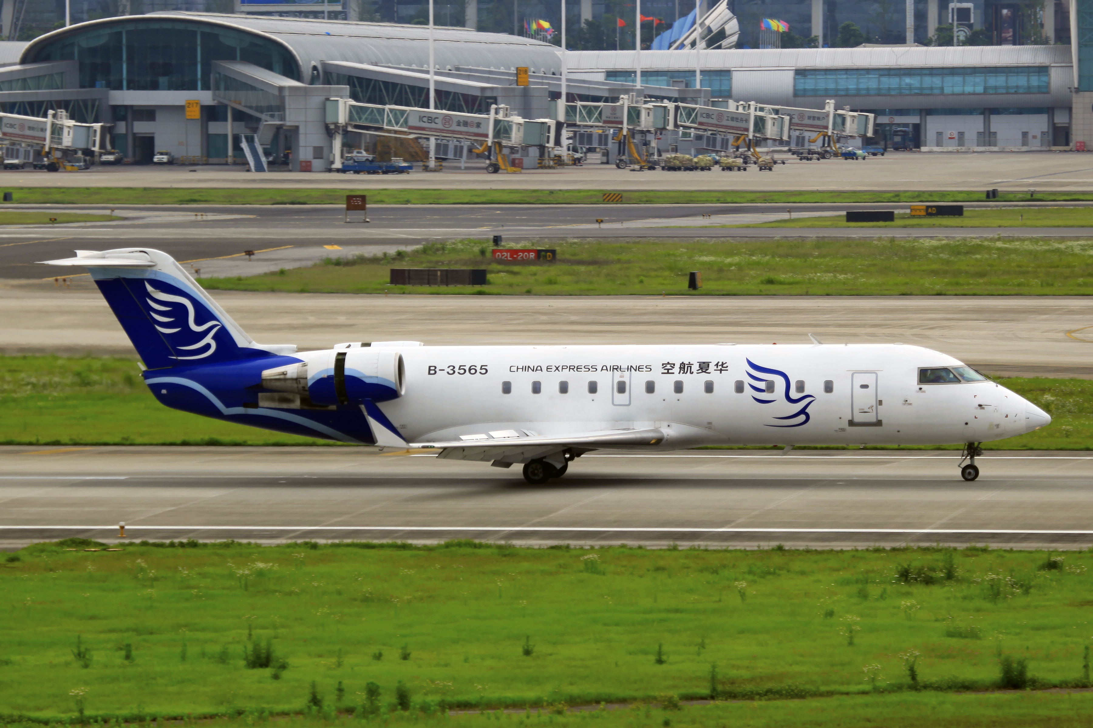 B-3565 | China Express Airlines | CRJ-200ER | Chongqing Jiangbei International Airport [CKG]